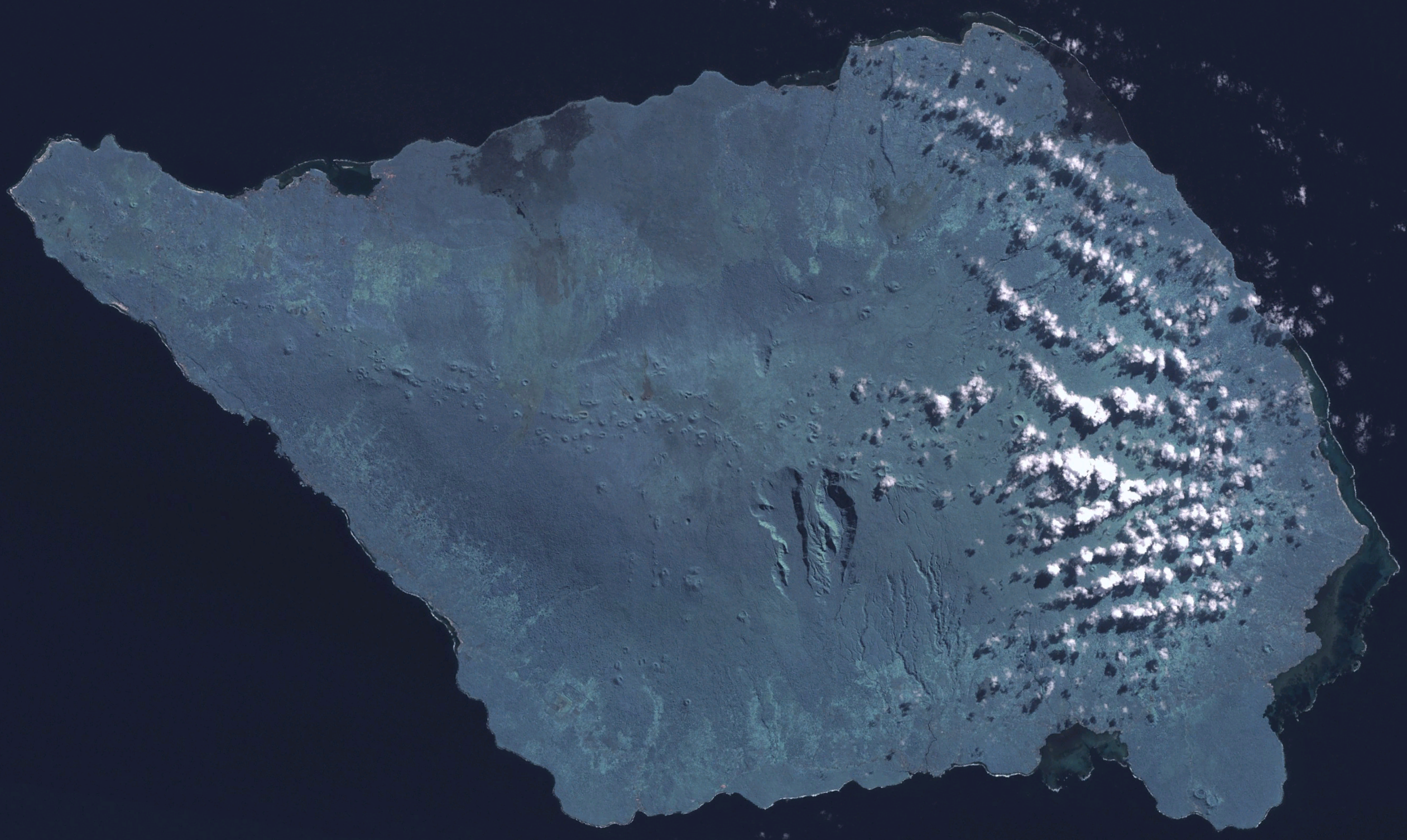 Satellite image of Savai'i.